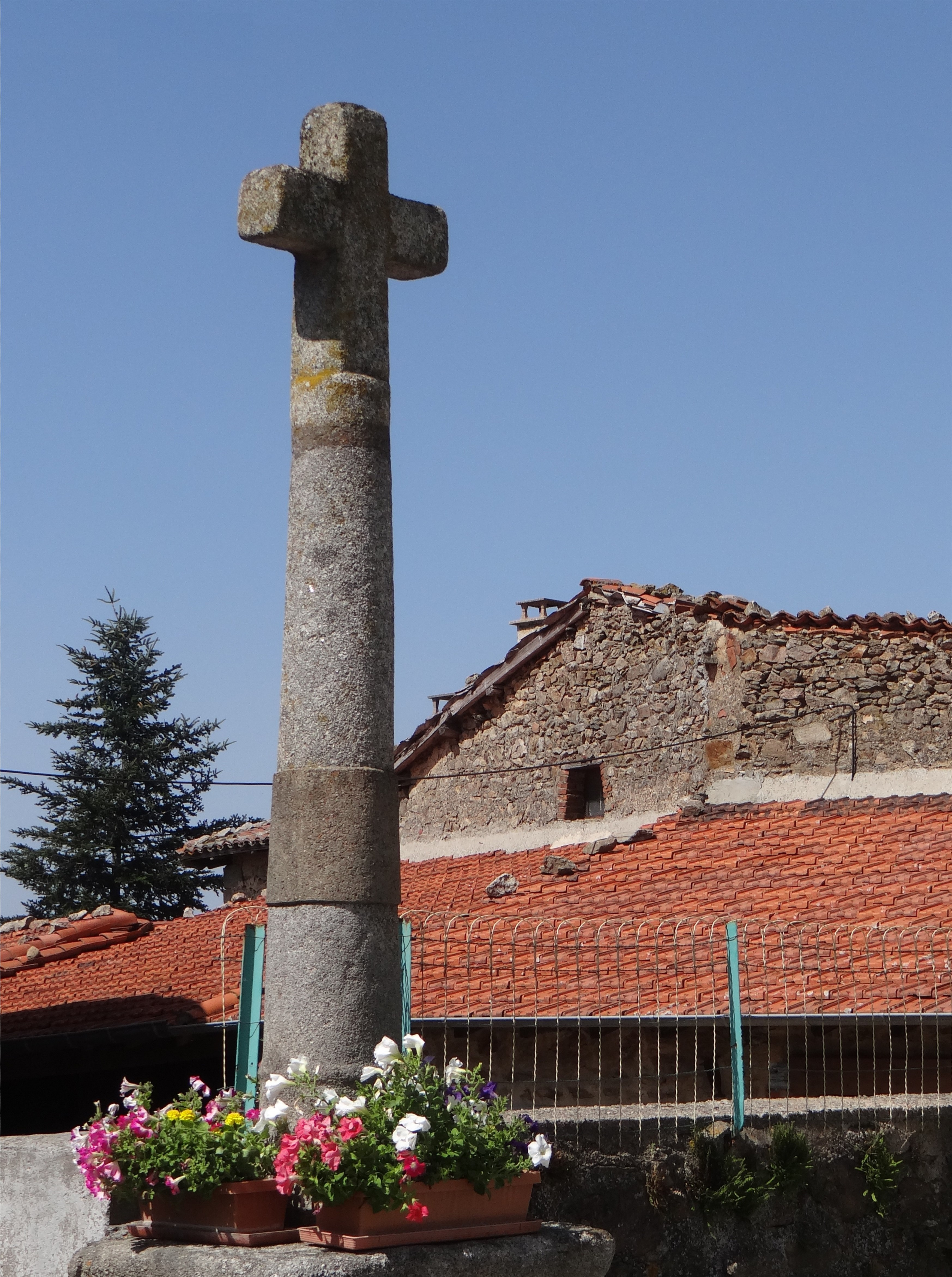 Cross Tiremanteau, Rontalon, Rhone, France